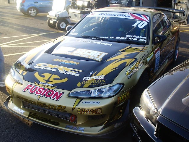 Top Secret Nissan Silvia S15, driven by Ryuji Miki. Shot during the D1 Grand Prix exhibition event, taking place in Silverstone Circuit, 2 October 2005